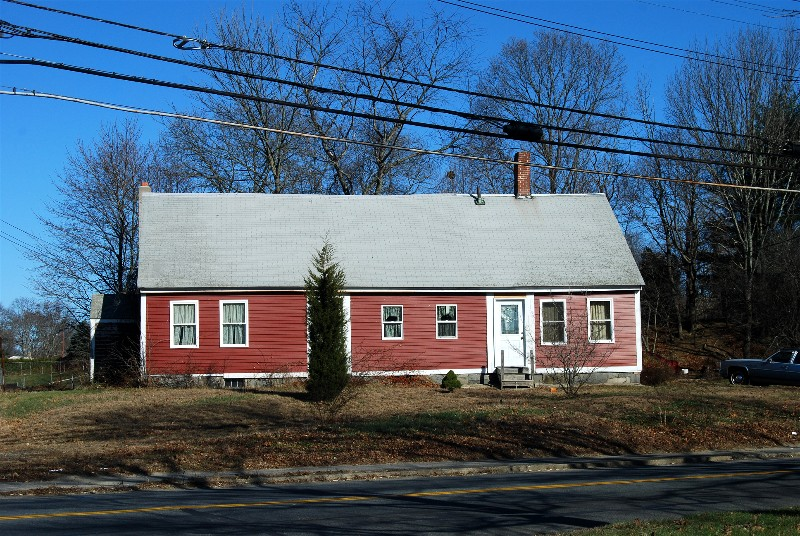 (former) Brow's Tavern, 211 Tremont Street, Taunton, Mass. Built 1780